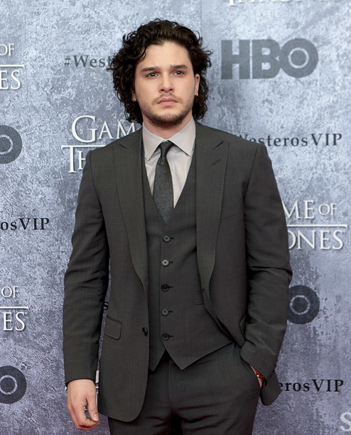 Photos by